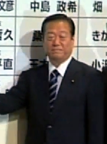 Ichirō Ozawa, Deputy President of the Democratic Party of Japan, posed for photos at the Laforet Museum Roppongi in Minato Ward, Tōkyō Metropolis on August 30, 2009.